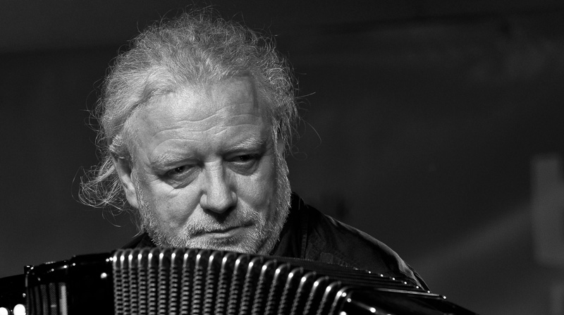 Jurij Kravets, Bayan-Player. Aufnahme eines Konzertes am Hauptmarkt in Nürnberg am 23.7.2011